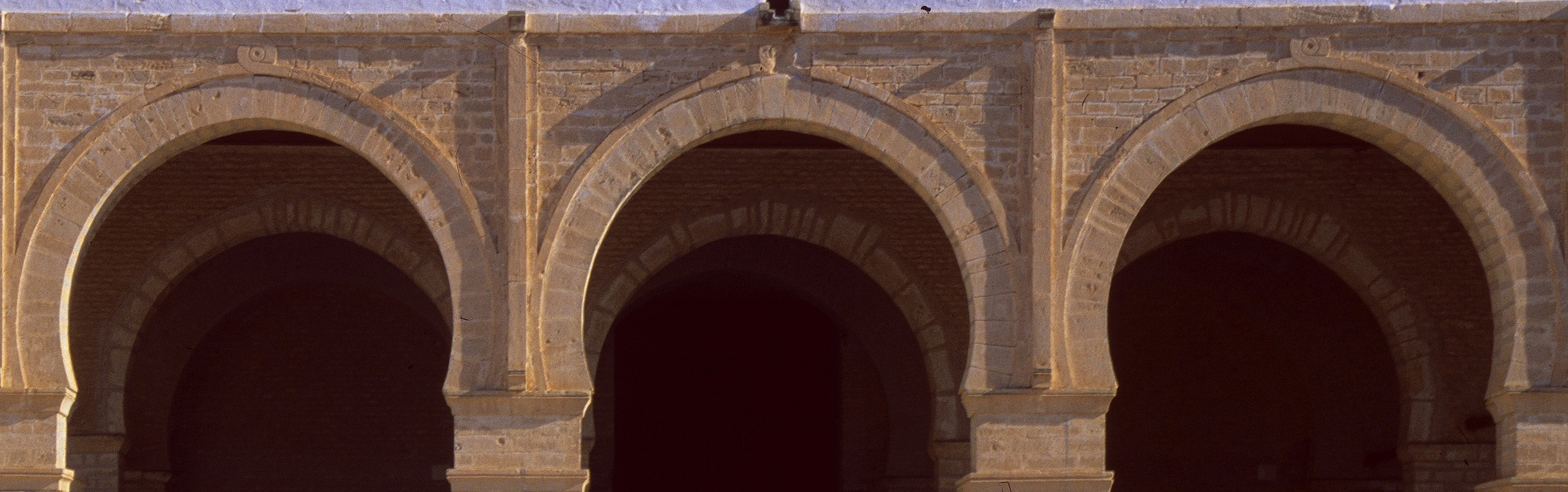 Close up of three arches of the facade of the eastern portico of the courtyard in the Great Mosque of Kairouan, Tunisia.